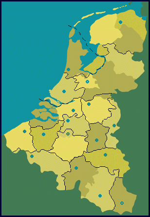 The Roman Catholic church provinces with archdioceses and suffragane dioceses in the Netherlands, Belgium and Luxembourg.